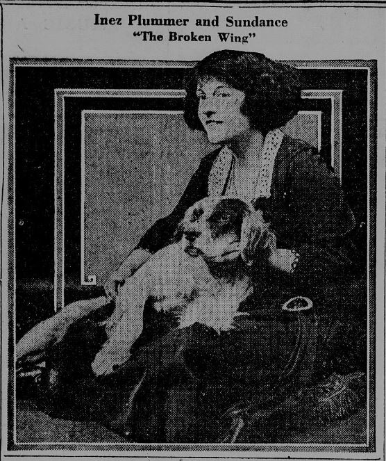 Inez Plummer and "Sundance" in a publicity photograph for The Broken Wing.